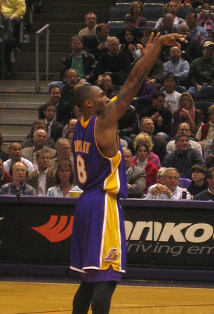 Kobe Bryant and his follow through on his free throw.